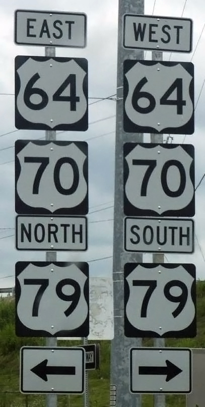 US Highway sign assembly in Memphis, TN. Photo taken by submitter and released without restriction into the public domain.